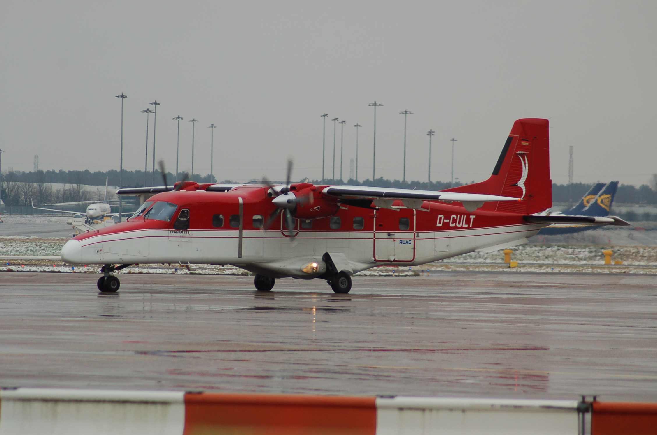 Dornier Do.228 of Business Wings at Birmingham-BHX,14/01/13.